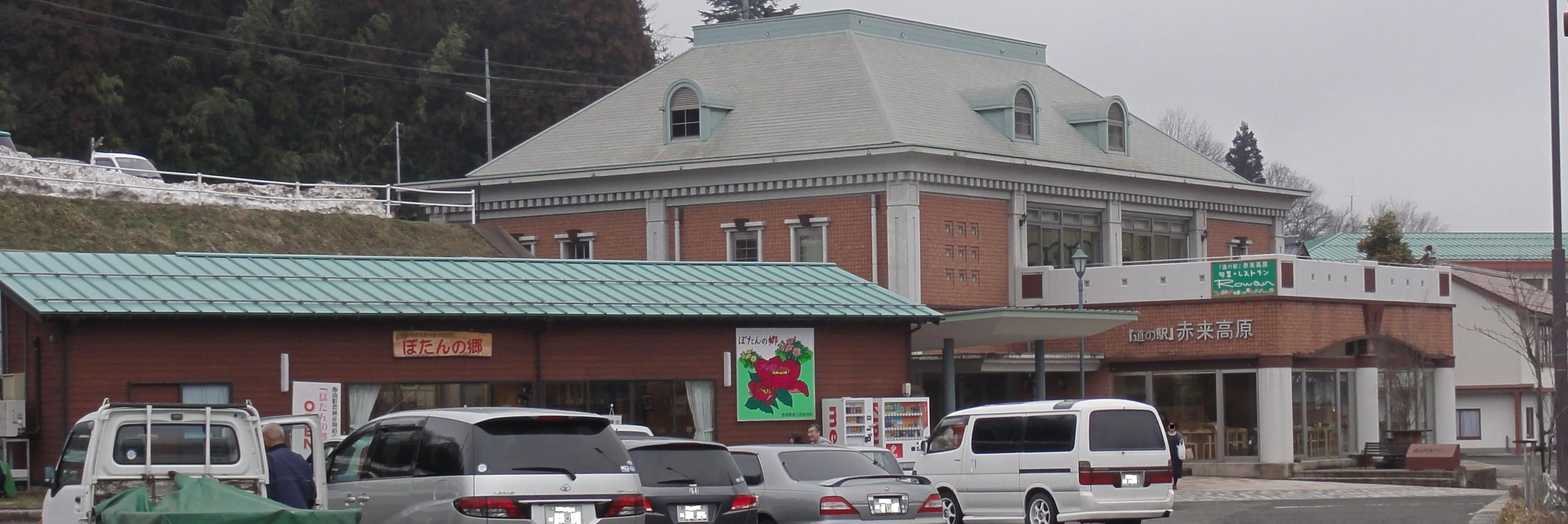 Road to station Akagi highland ,Shimane prefecture,Japan